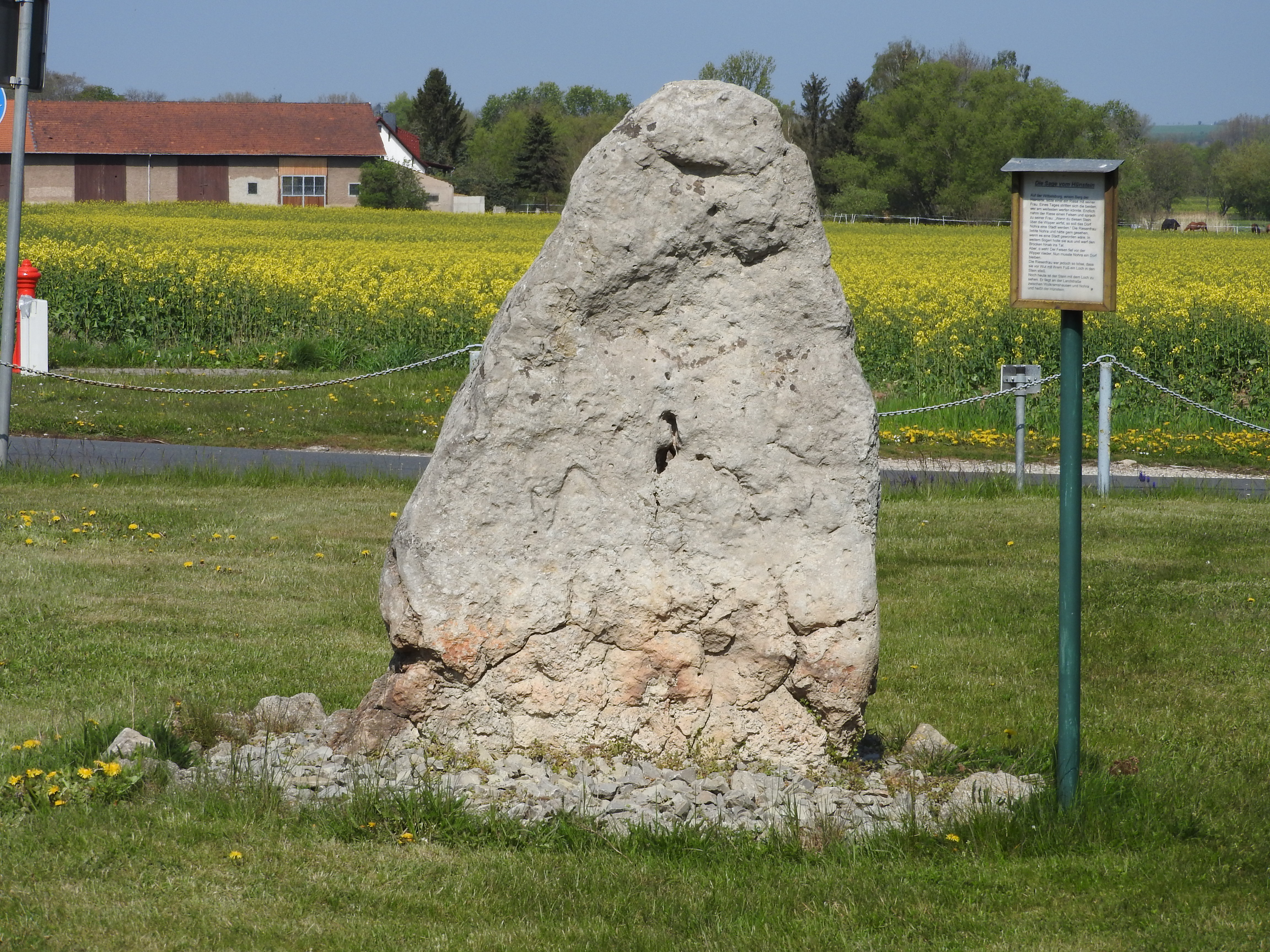 Menhir of Nohra, Wipper, Thuringia, Germany